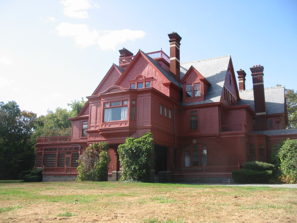 Thomas Edison National Historical Park. Edison's estate known as Glenmont.